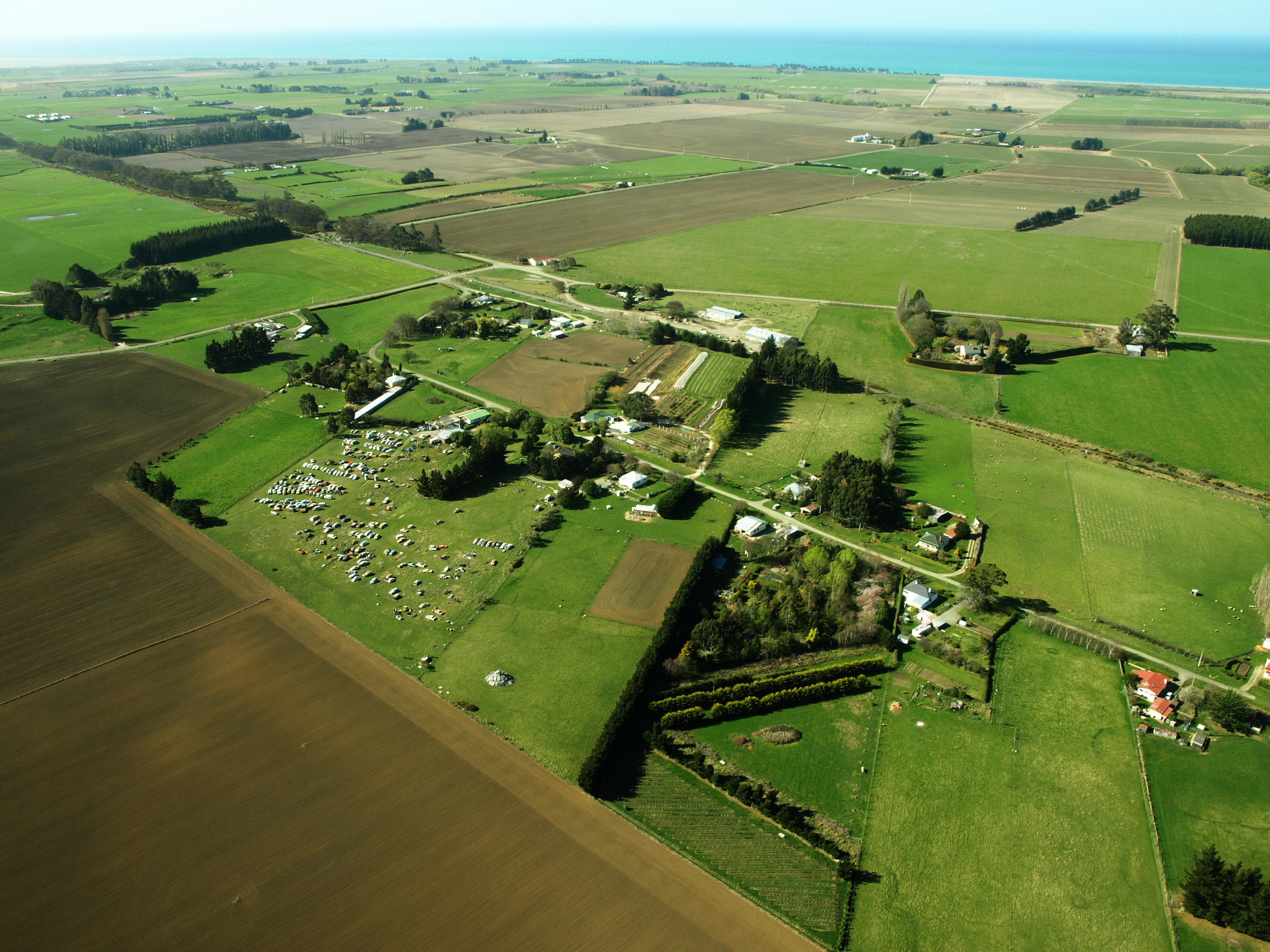 Willowbridge from the West